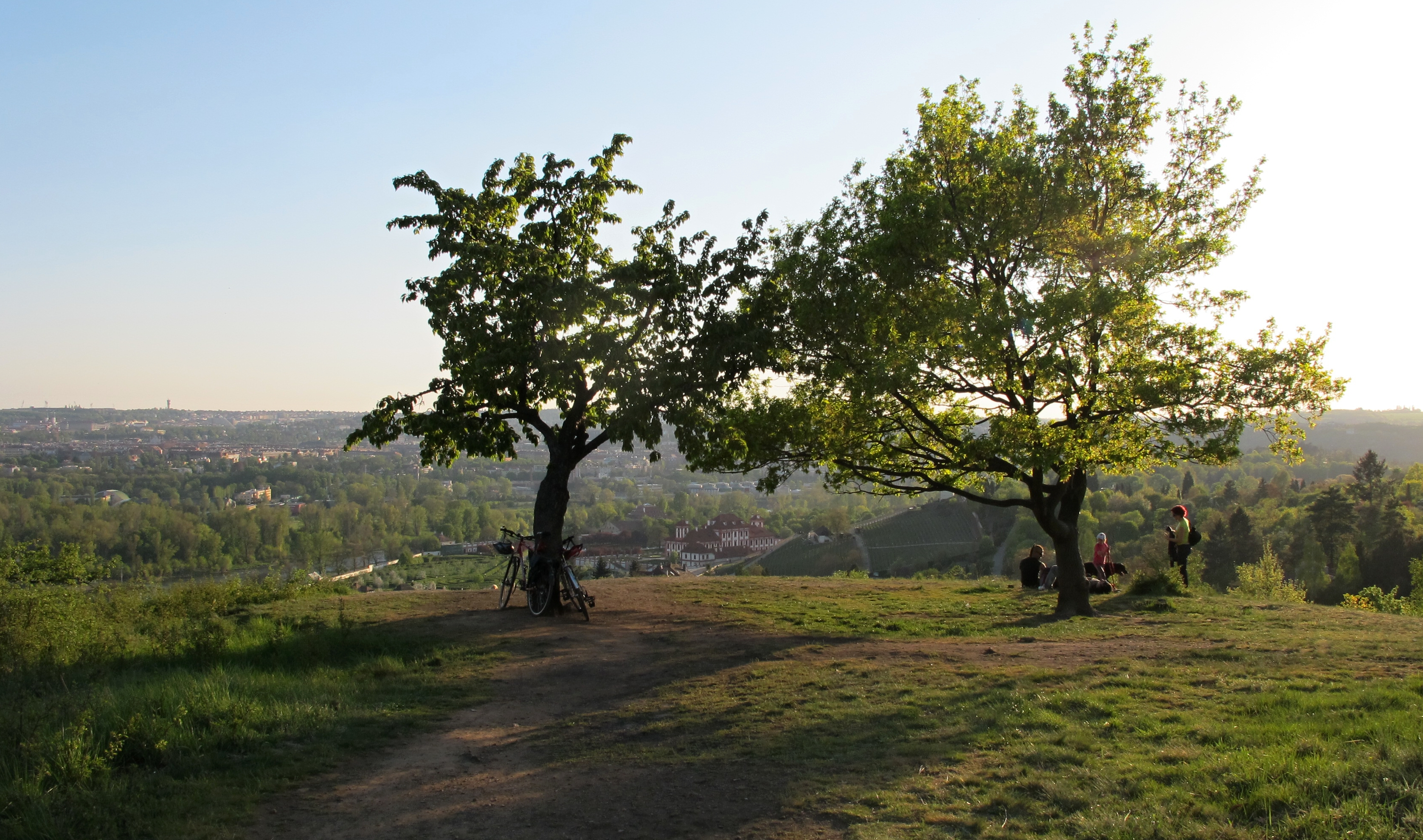 Natural monument Havránka near Botanic Gardens in Troja, Prague